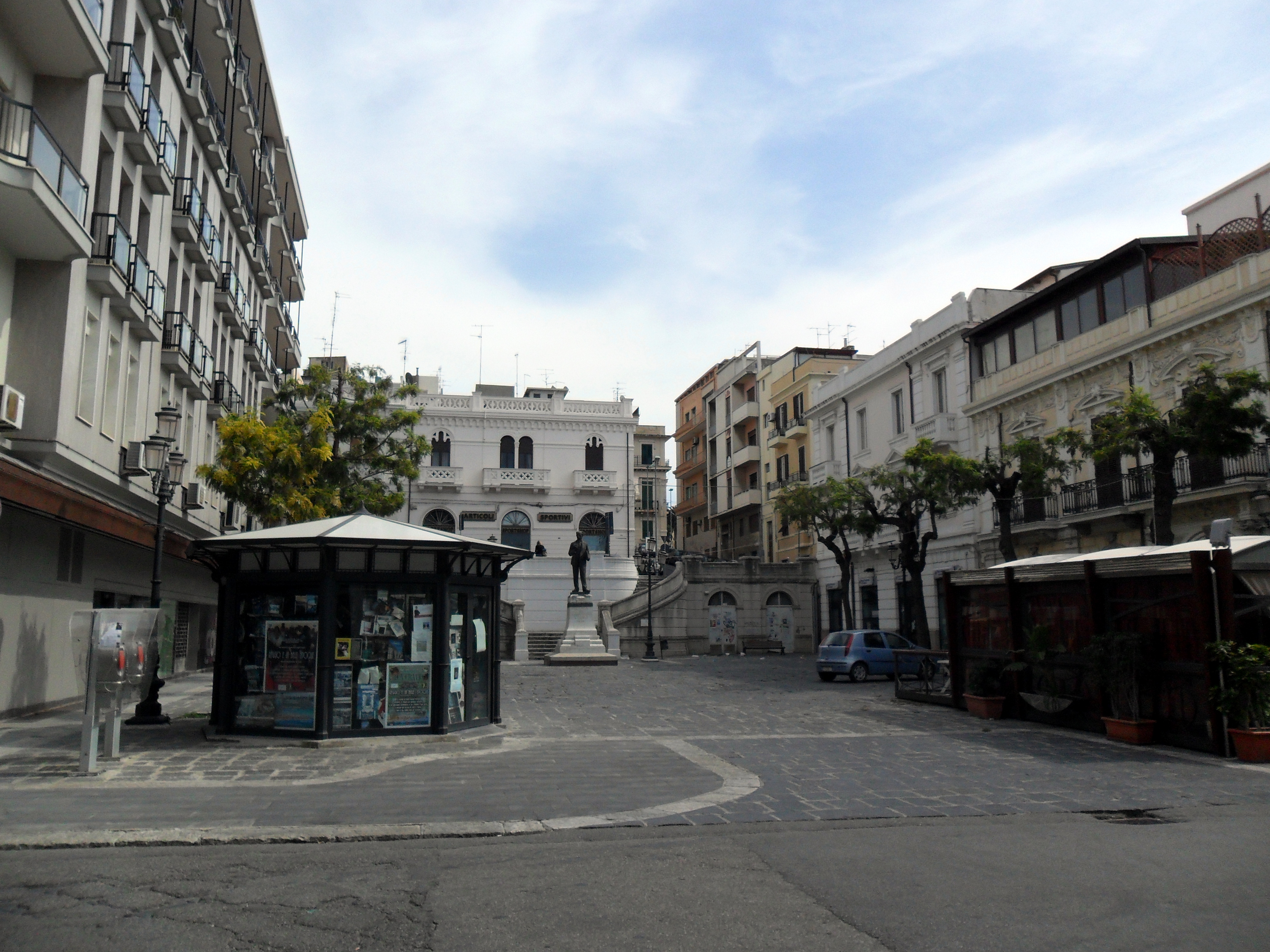 Camagna's Square